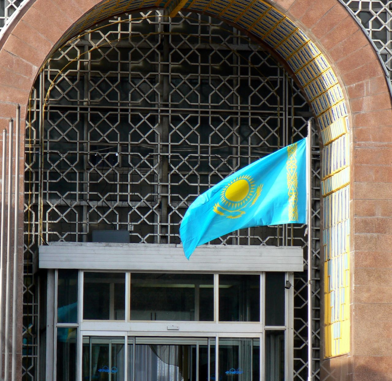 The Kazakh flag.